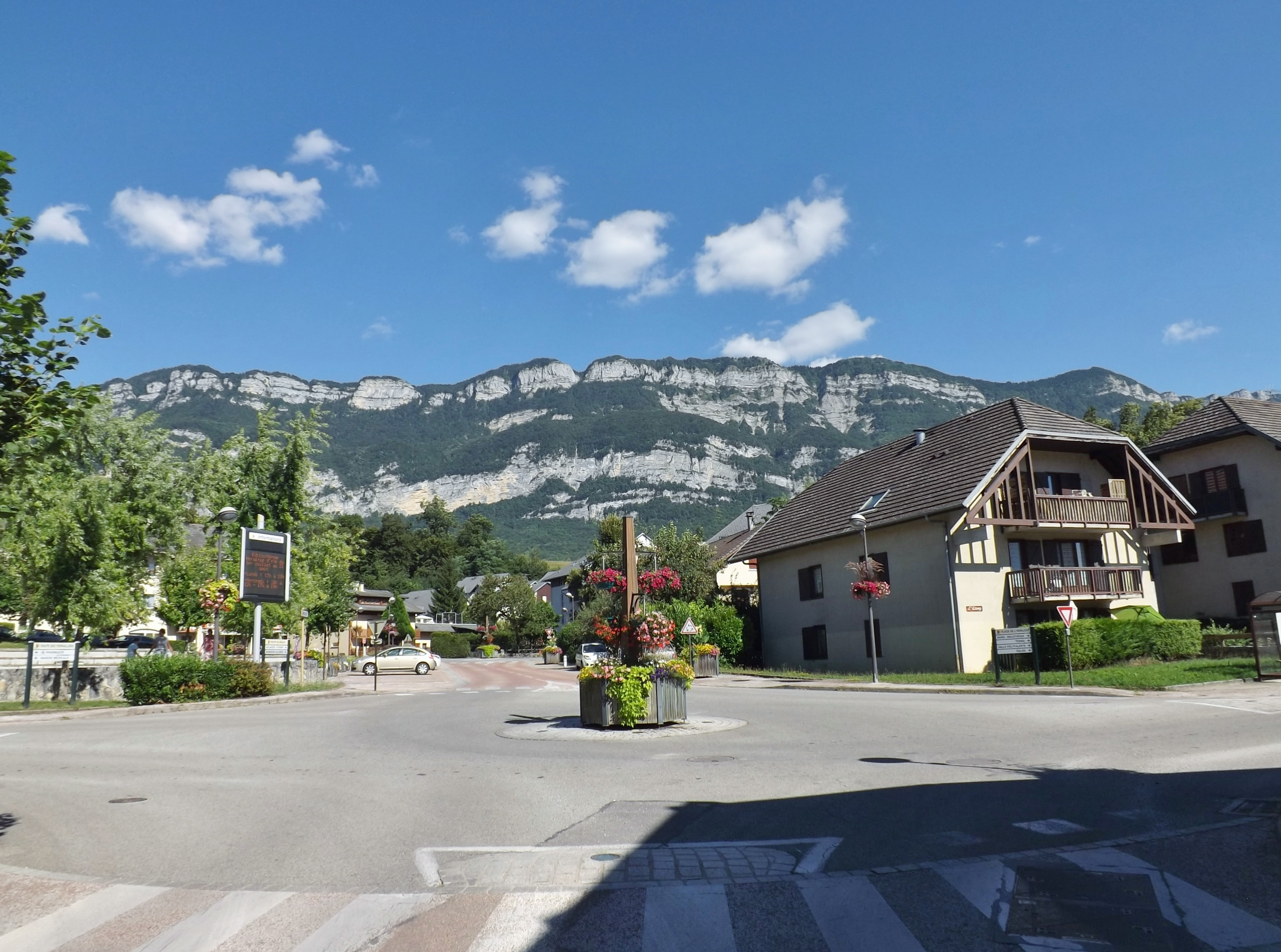 Sight of the Place de l'Horloge place of Drumettaz-Clarafond, in Savoie, France.